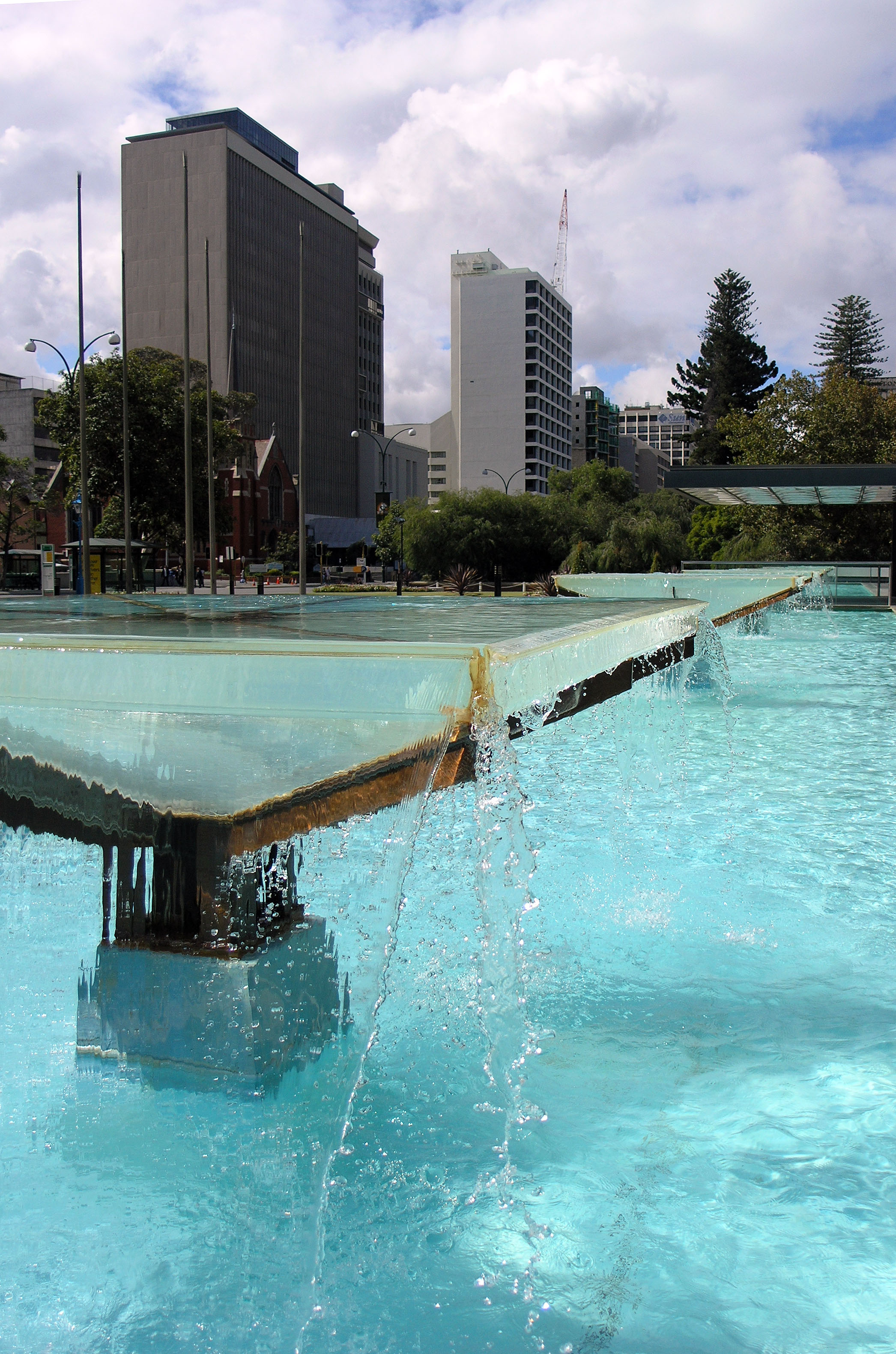 Council House, Perth. Showing water features in front of the building. Taken for this page